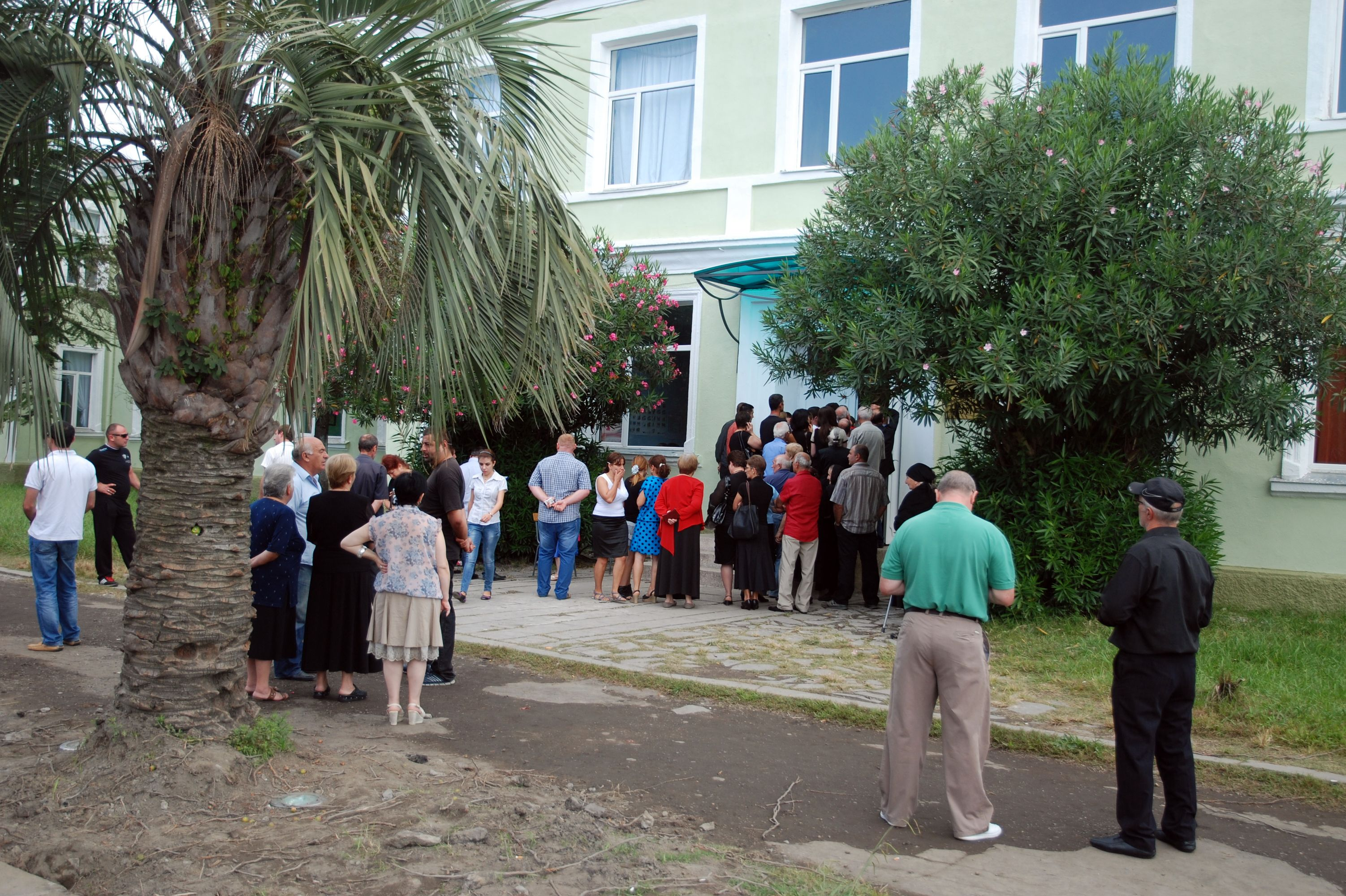 Georgian parliamentary election 2012, Poti